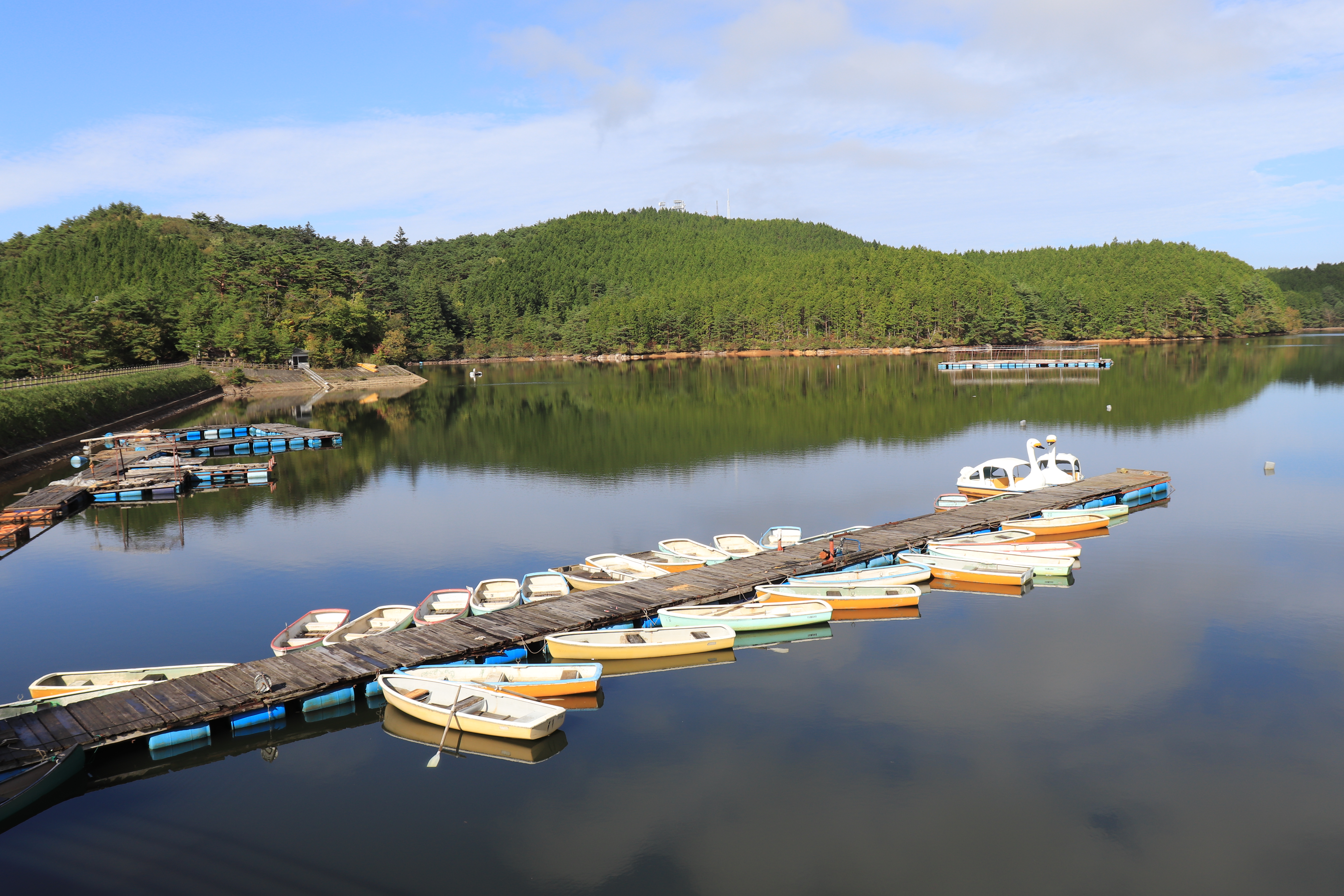 Lake Hoko on Mount Hoko in Ena and Nakatsugawa, Gifu Prefecture, Japan.